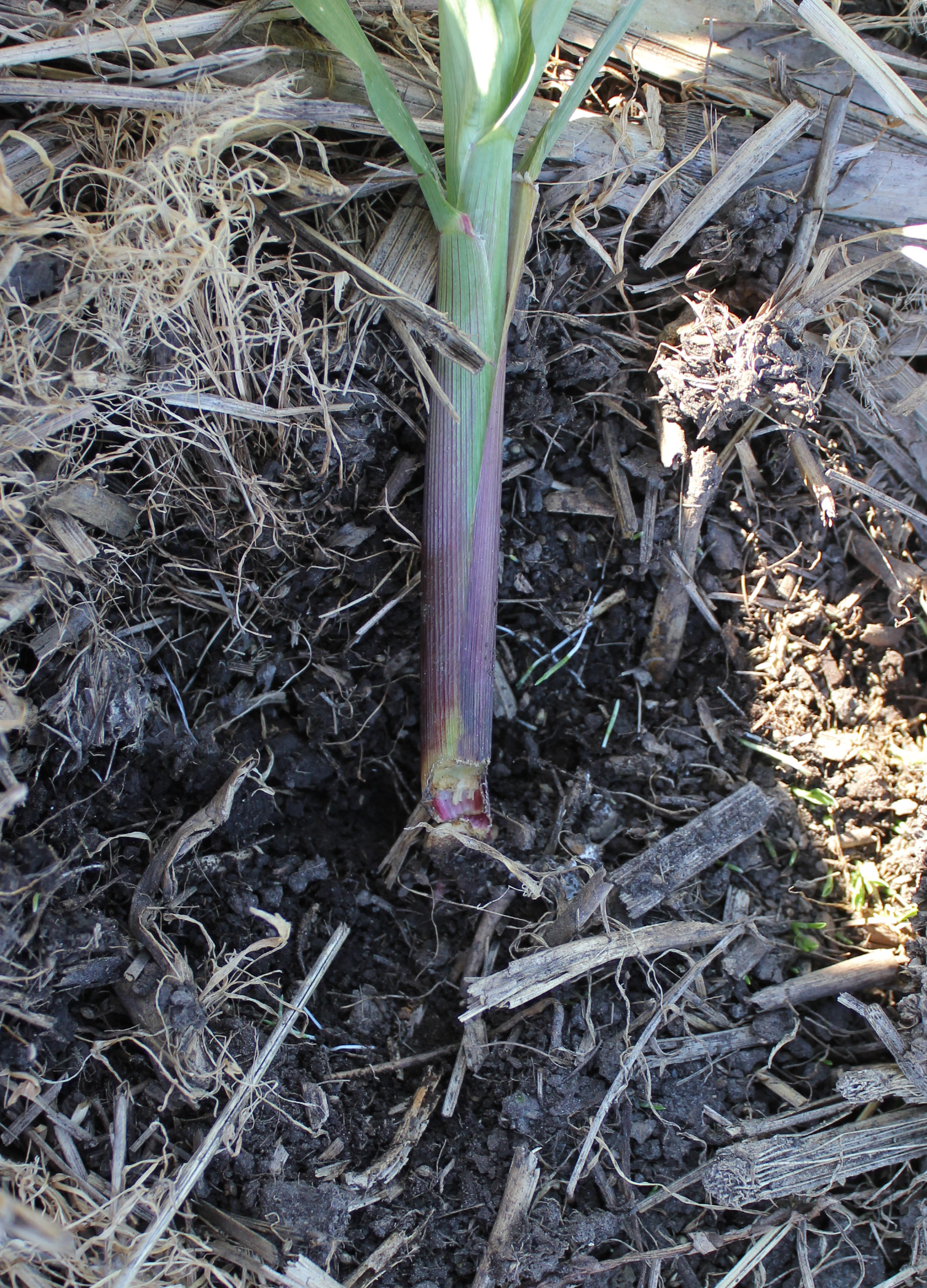 Damage Cutworm Agrotis ipsilon